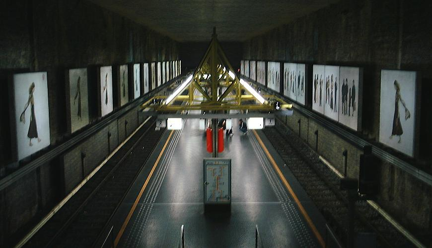 Platform of Houba-Brugmann station, Brussels metro